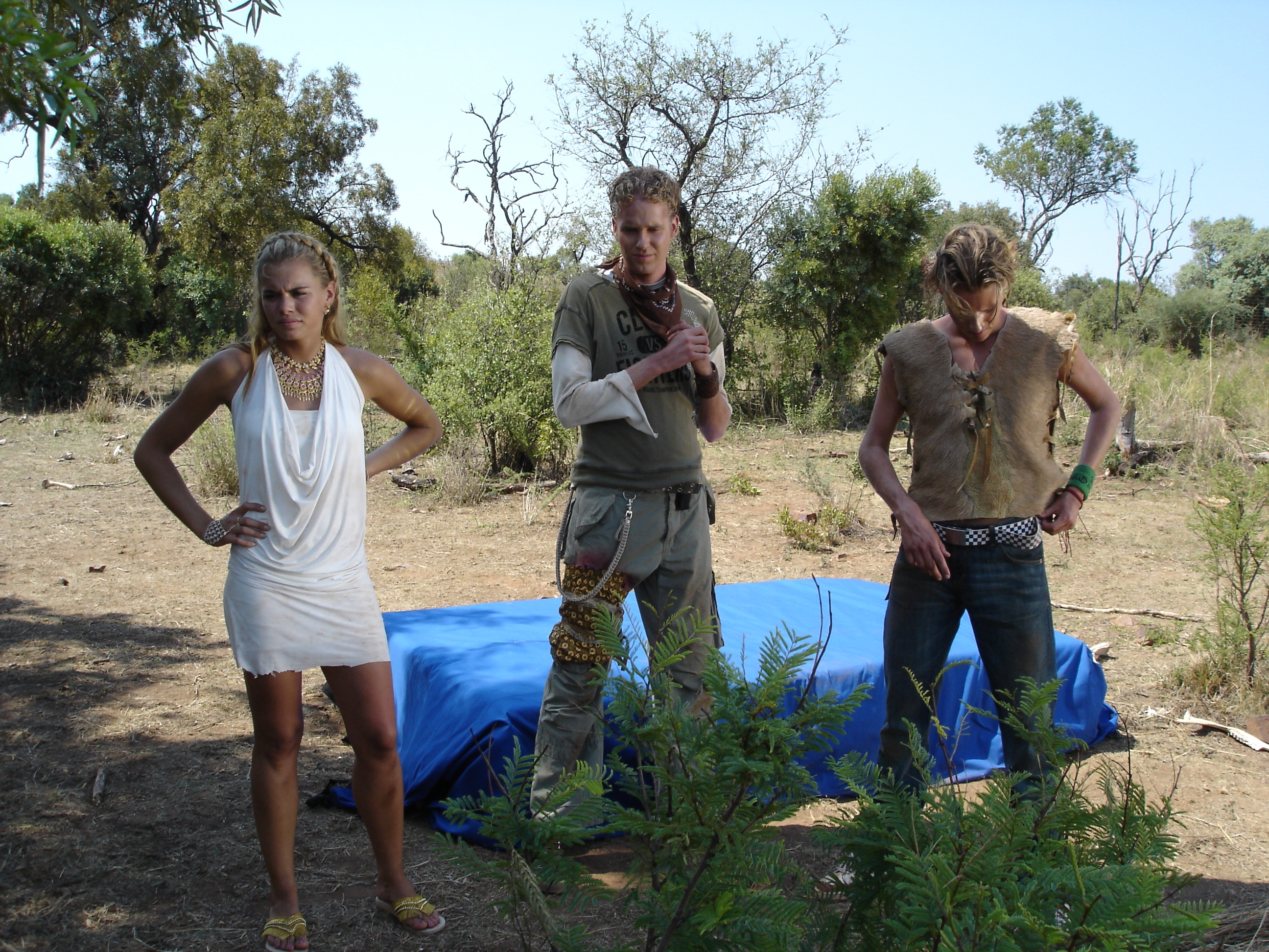 Shooting the film "ZOOP in Afrika", Nicolette van Dam, Sander Jan Klerk, Ewout Genemans